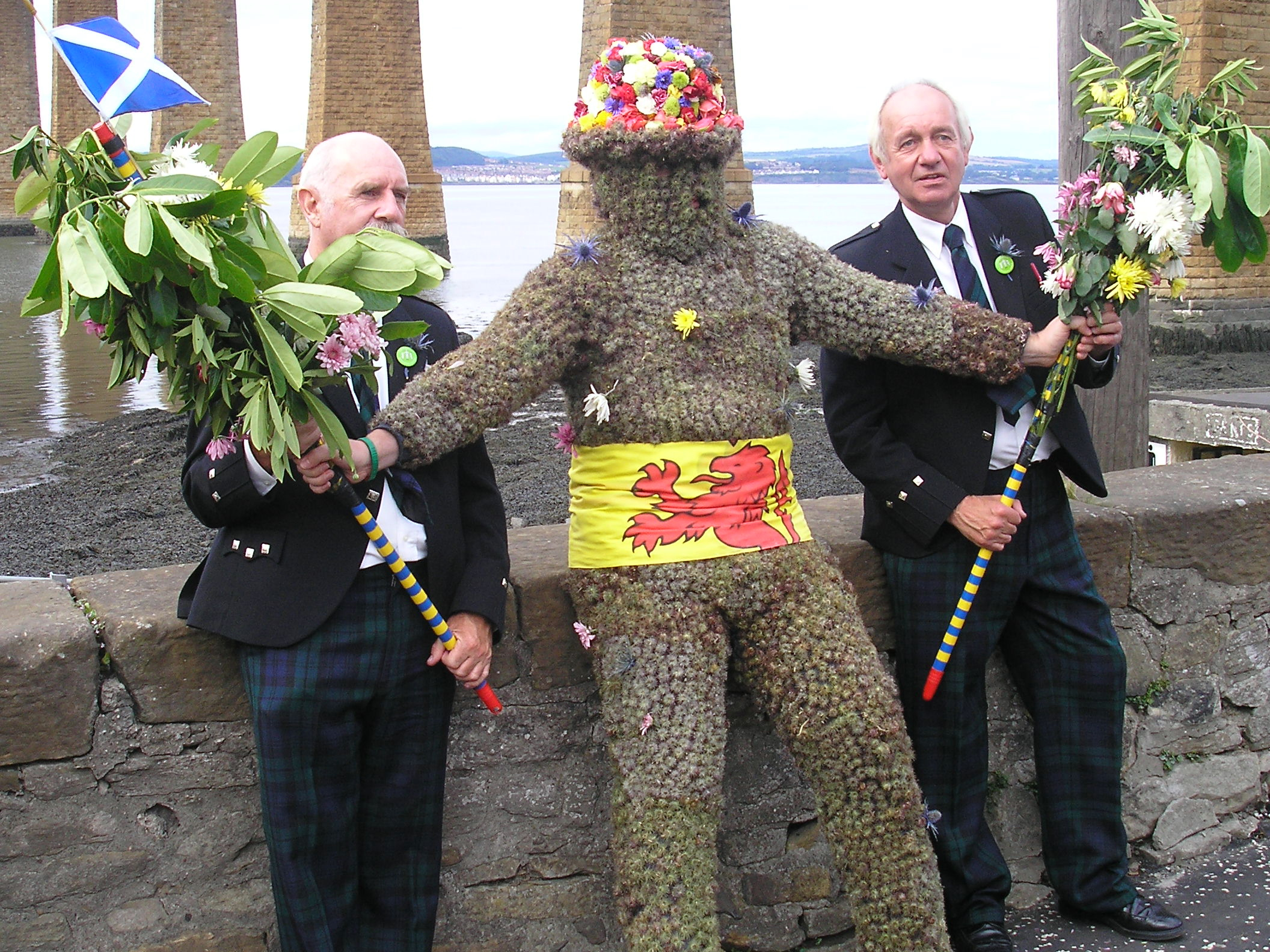 John Nicol, South Queensferry's current Burry Man, takes a rest in full regalia supported by his two attendants. Date: 10 August 2007 Taken: Michael Mabbott